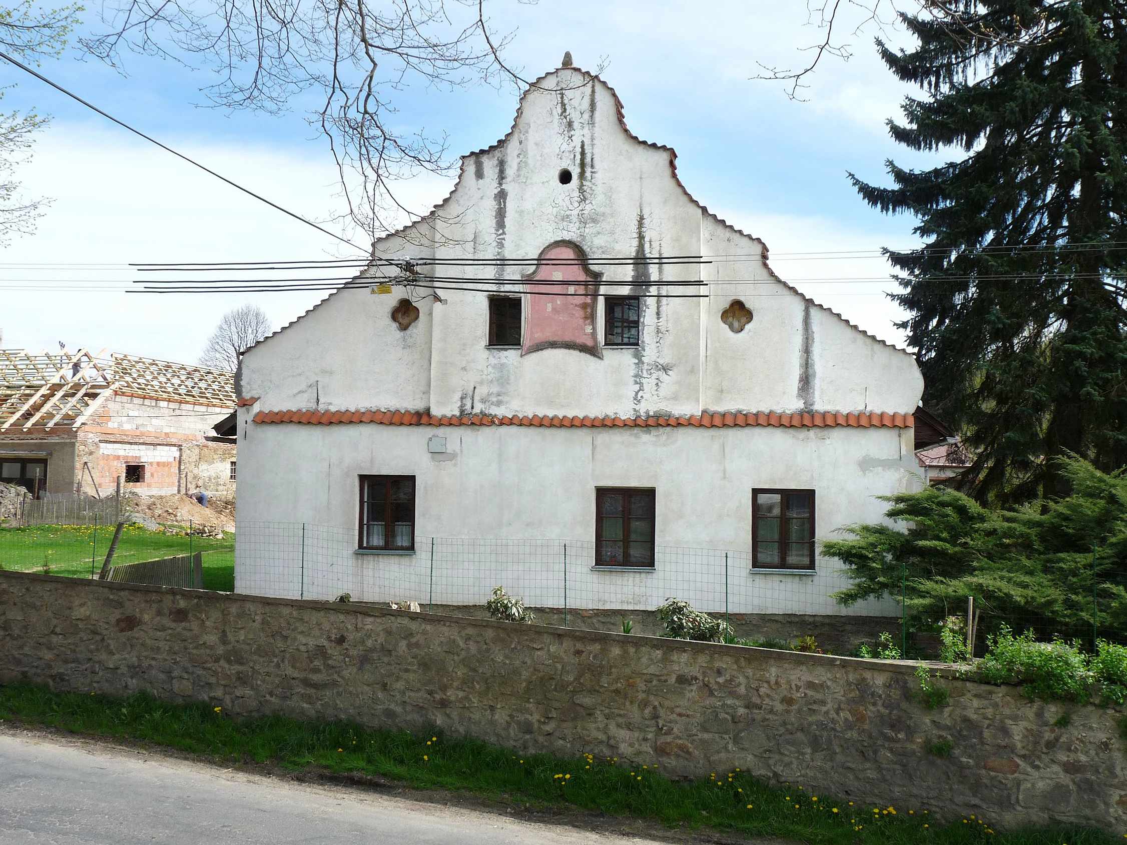 House No 12 in the market town of Kolinec, Klatovy District, Czech Republic.